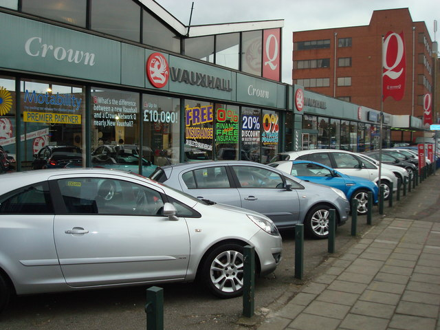 Car Dealer, Eastern Avenue, Gants Hill